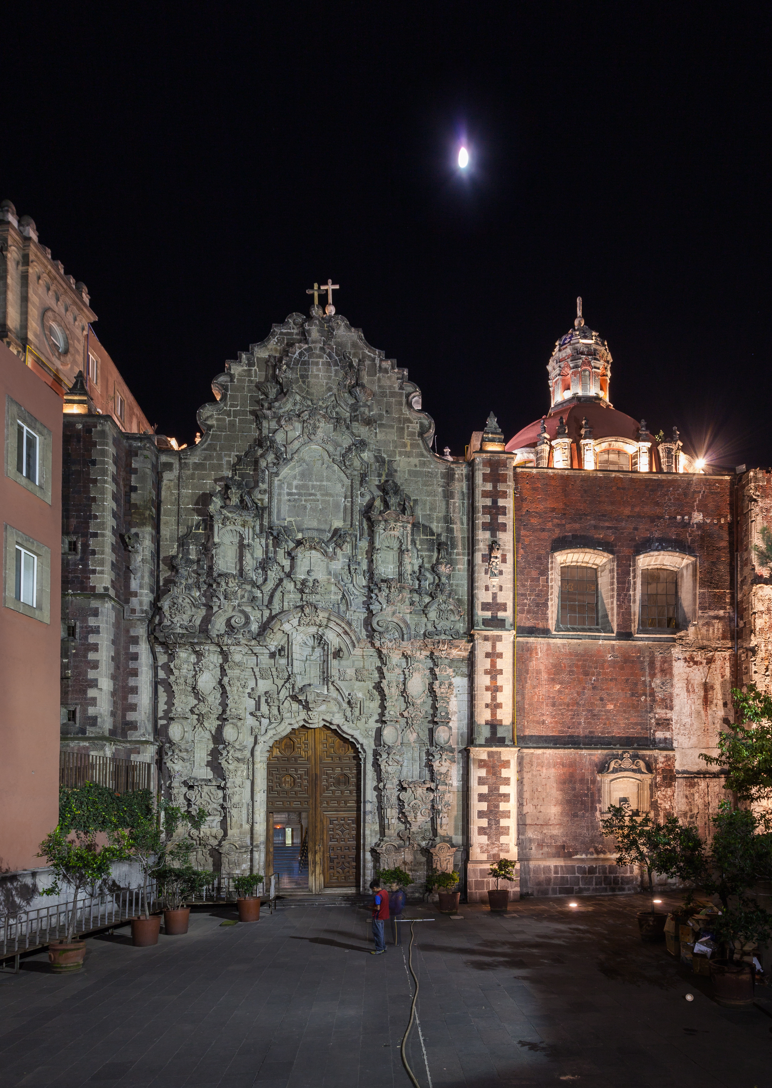 Temple of St Francis, Mexico City, Mexico